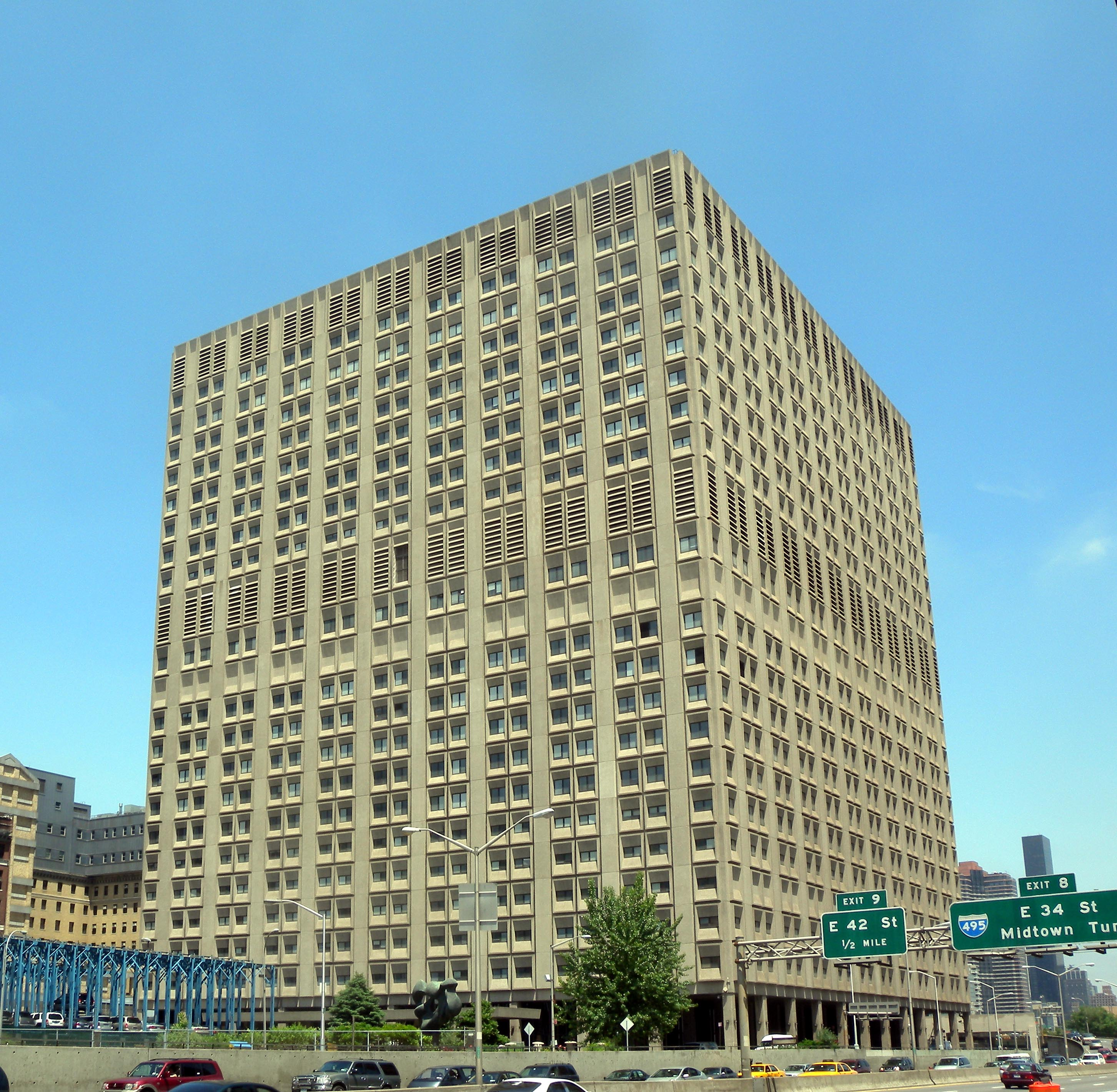 Looking northwest across FDR Drive at huge "New Building" of Bellevue Hospital Center on a sunny midday. Architect: Katz, Waisman, Blumenkranz, Stein, Weber Pomerance & Breines